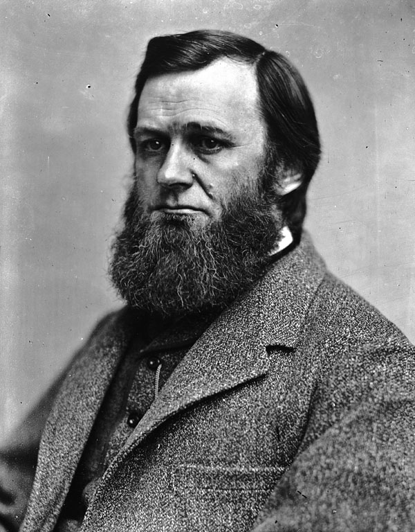 Portrait of Spencer Fullerton Baird (1823-1887), second Secretary (1878-1887) of the Smithsonian Institution. Baird, an ornithologist, arrived in Washington in 1850 to become Assistant Secretary of the Smithsonian Institution, a post he held for 28 years. Upon the death of Joseph Henry, the first Secretary of the Smithsonian (1847-1878), he became Secretary. This image shows Baird from above the waist, turned slightly looking off to his right. The vigorous Pennsylvanian was to launch and assist dozens of expeditions to the American West. In addition to advice, training and instructions for making scientific observations and collections in the various disciplines of natural history, the Smithsonian provided the explorers with all manner of supplies, such as shipping containers, alcohol, arsenic (a preservative), and scientific instruments. Similar images, taken by Bell on the same day, are SA-61, 2004-60939 and 46853/oval.